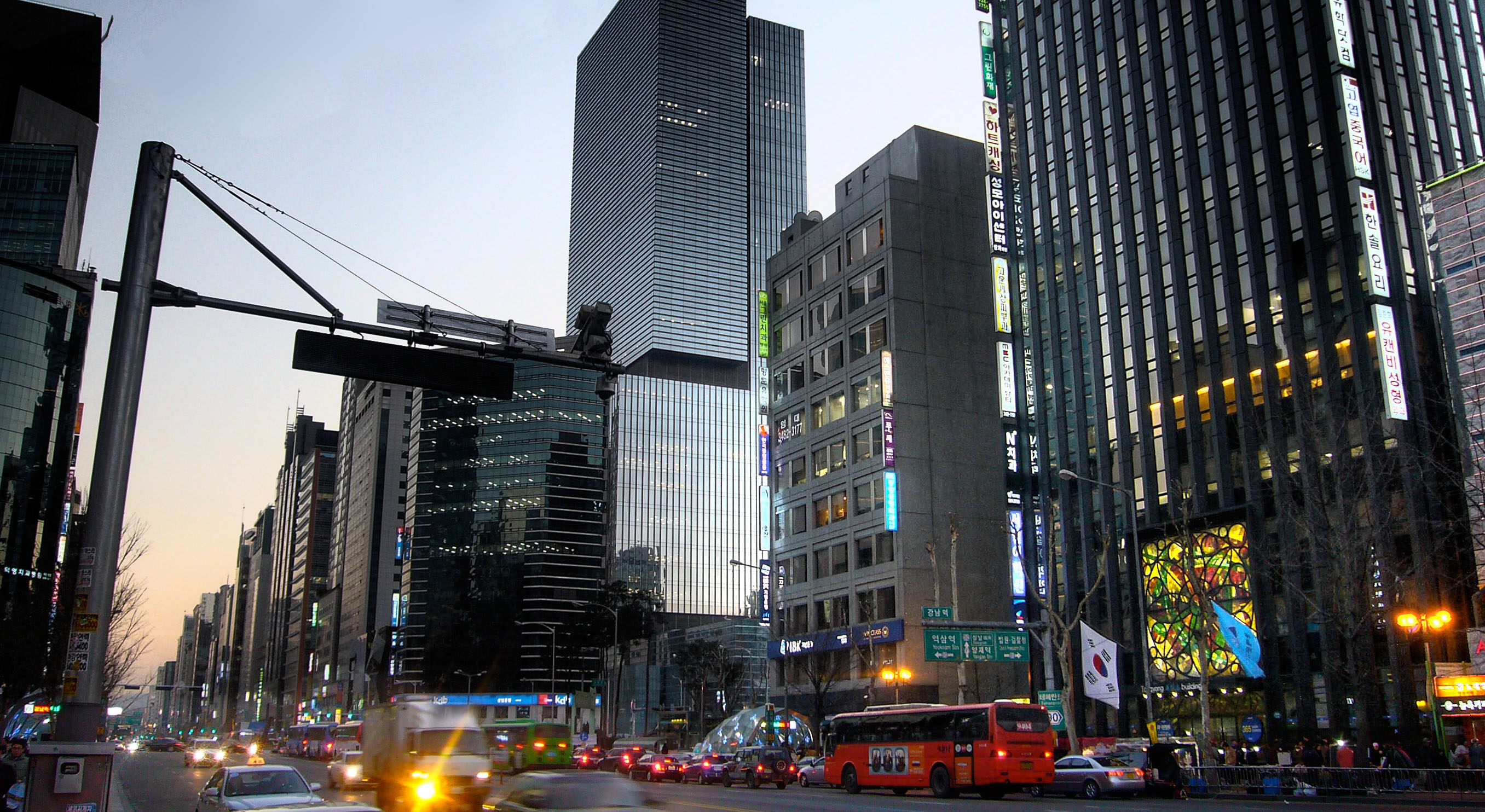 Gangnam area is located in the South of Seoul.